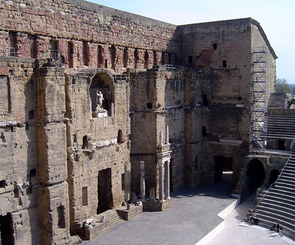 Roman theatre at Orange, France Image by ChrisO